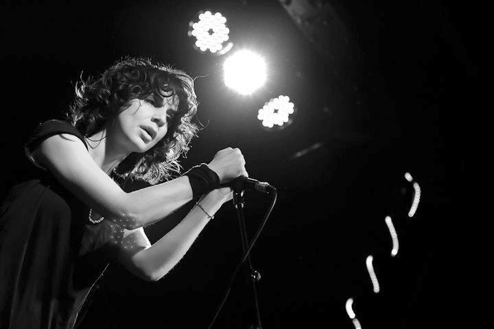 Chloe Alper